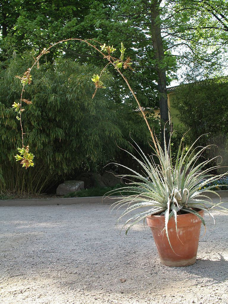 Deuterocohnia glandulosa in cultivation at the Botanical Garden of Heidelberg, Germany.